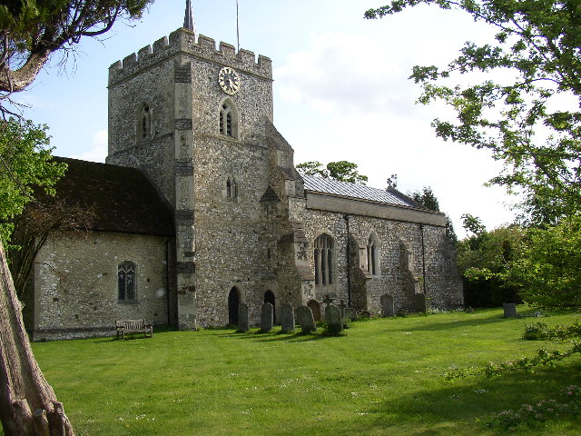 Church of St. Mary, Pirton, north side